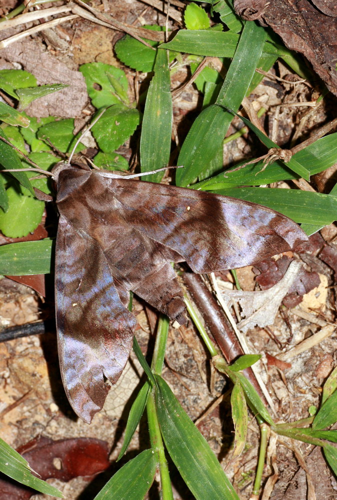 Borneo, Crocker Range National Park April, 2009